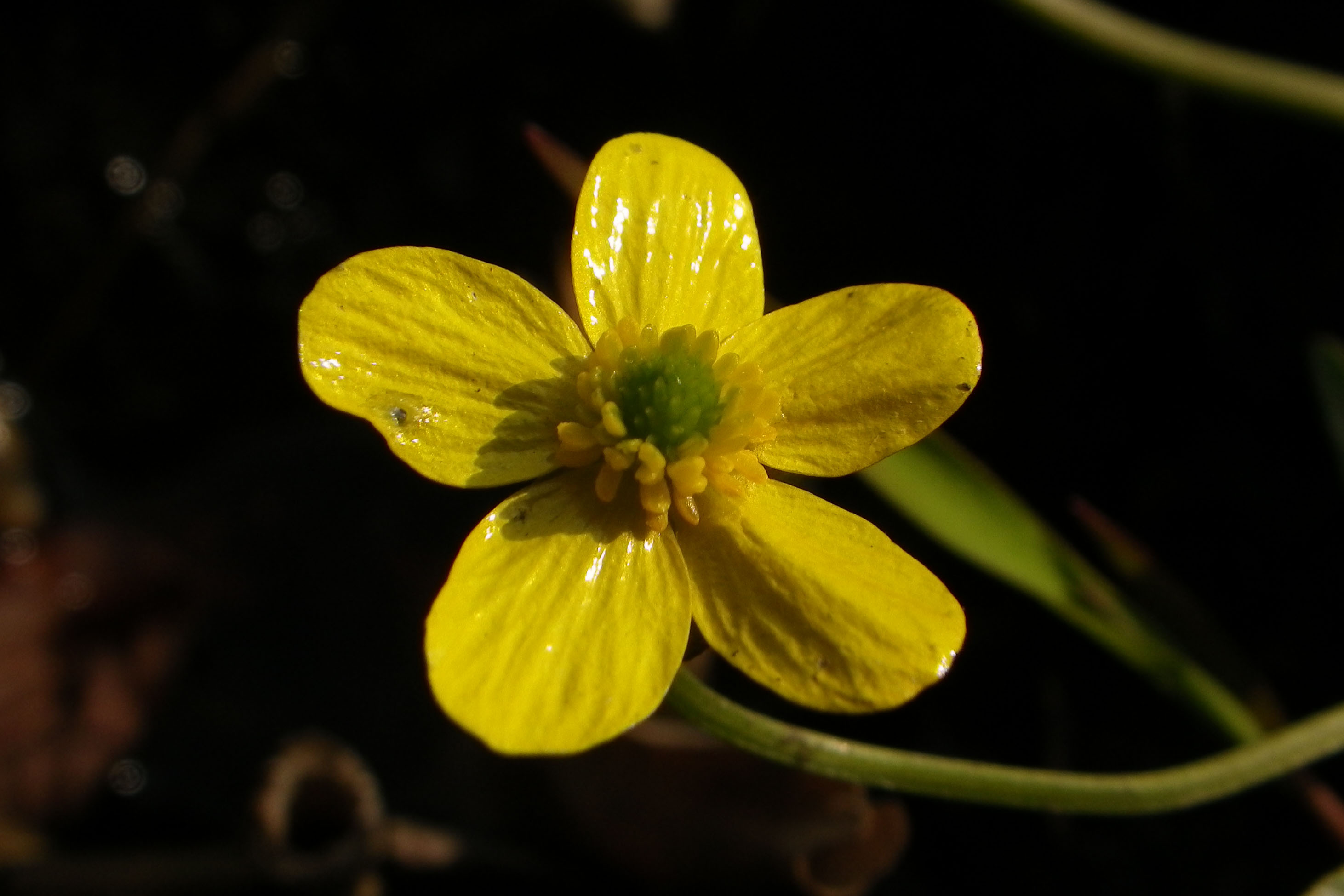 Ranunculus ternatus